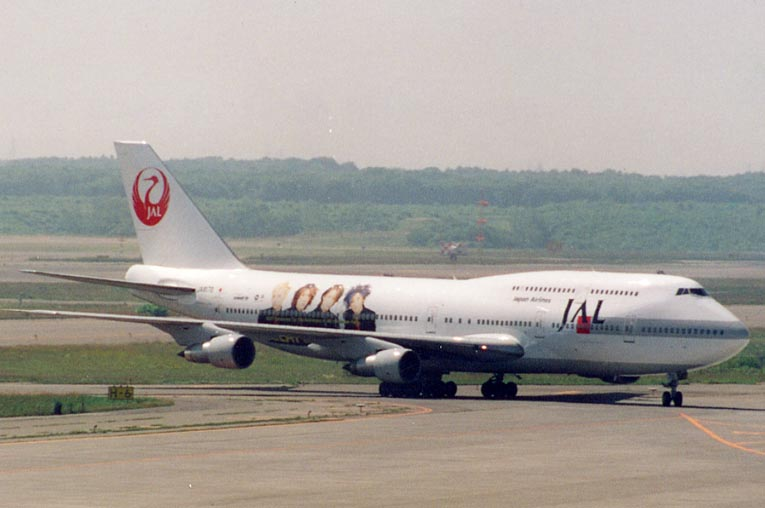 JAL Boeing 747-146B(SUD) JA8170 GLAY JUMBO in New Chitose Airport, Japan